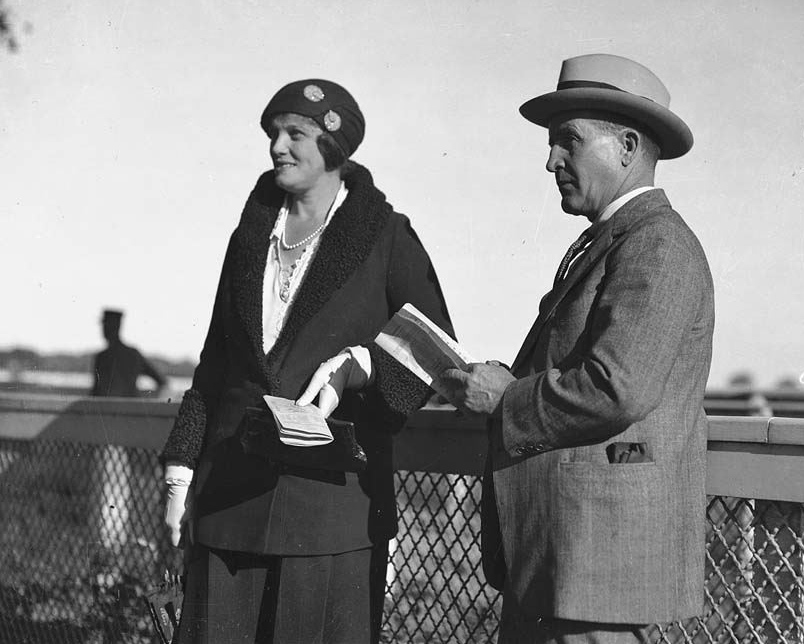 Harry and Eunice Oakes visit a racetrack in Toronto, some time in the 1930s. Photograph appeared in the Toronto Daily Star on Thursday, July 22, 1943, after the murder of Sir Harry Oakes.